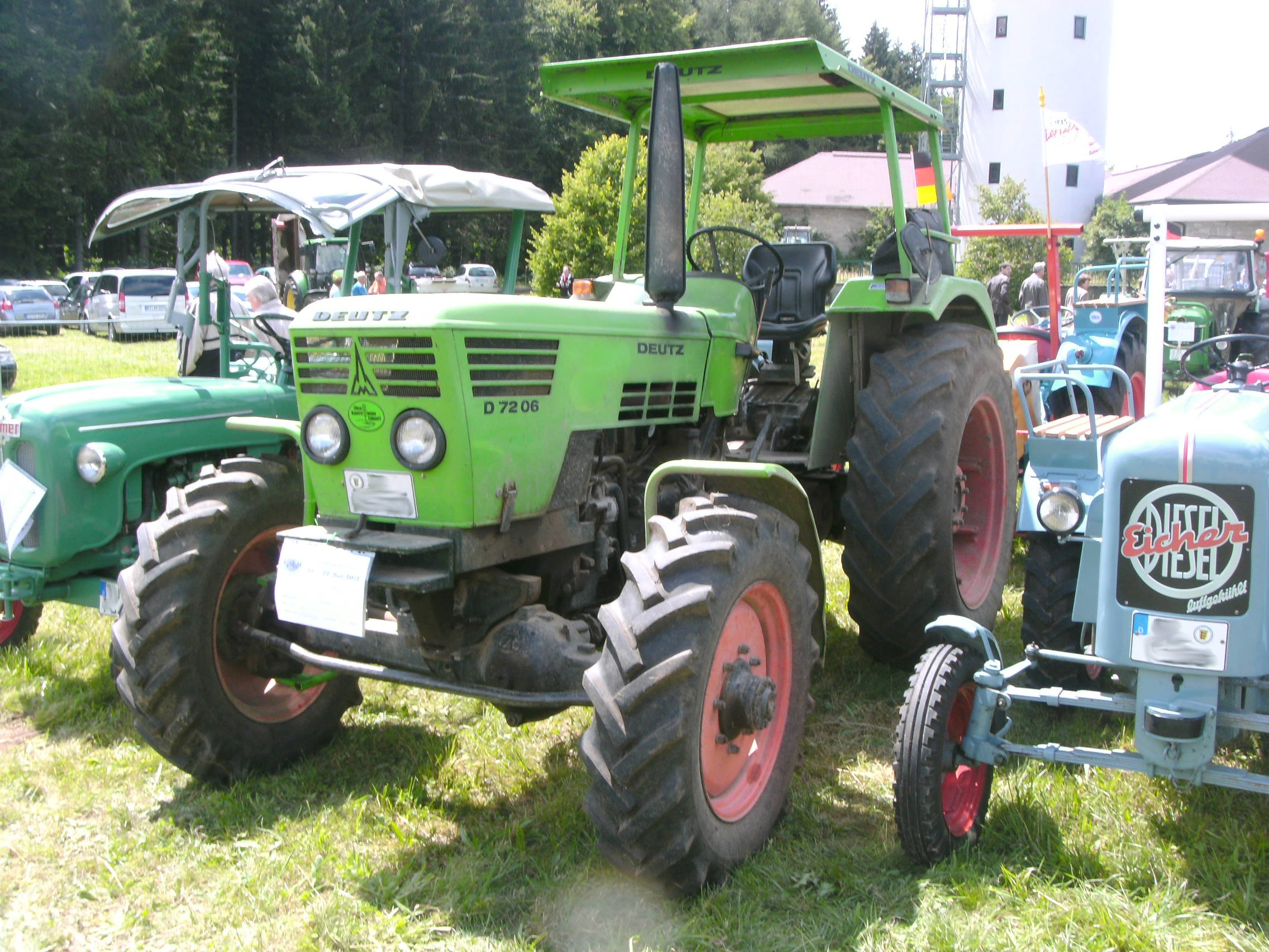 Deutz D7206, 72 hp, manufactured in 1977